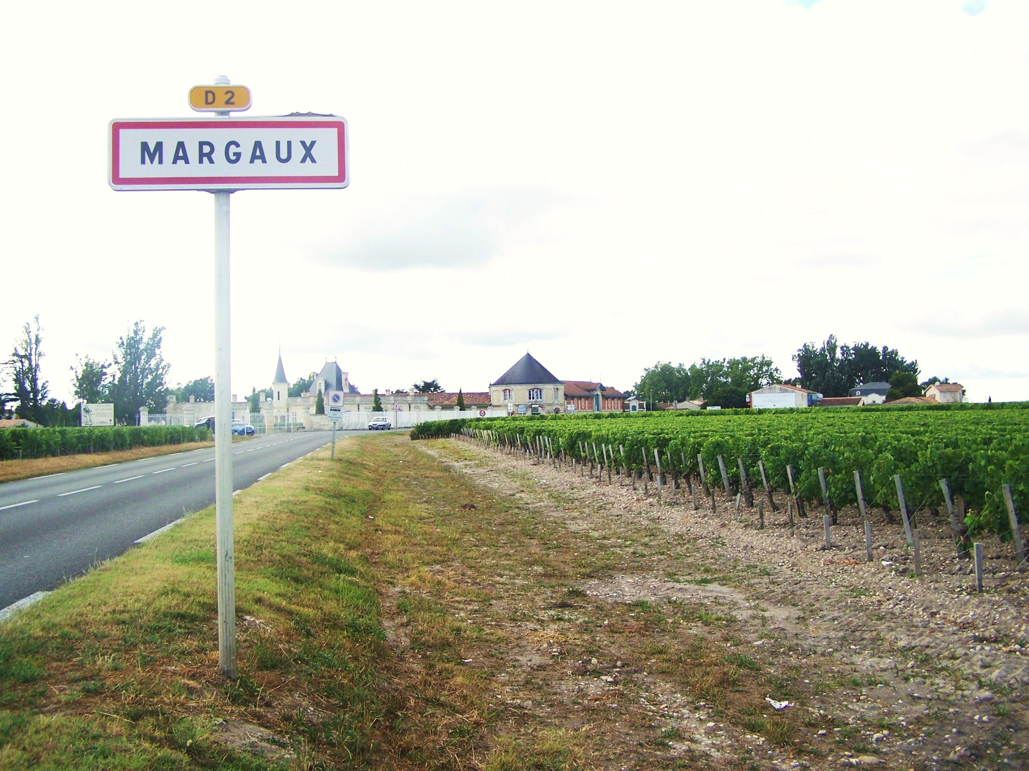 Sign welcoming visitors to the wine-producing French commune of Margaux in Médoc, Gironde, surrounded by its vineyards.